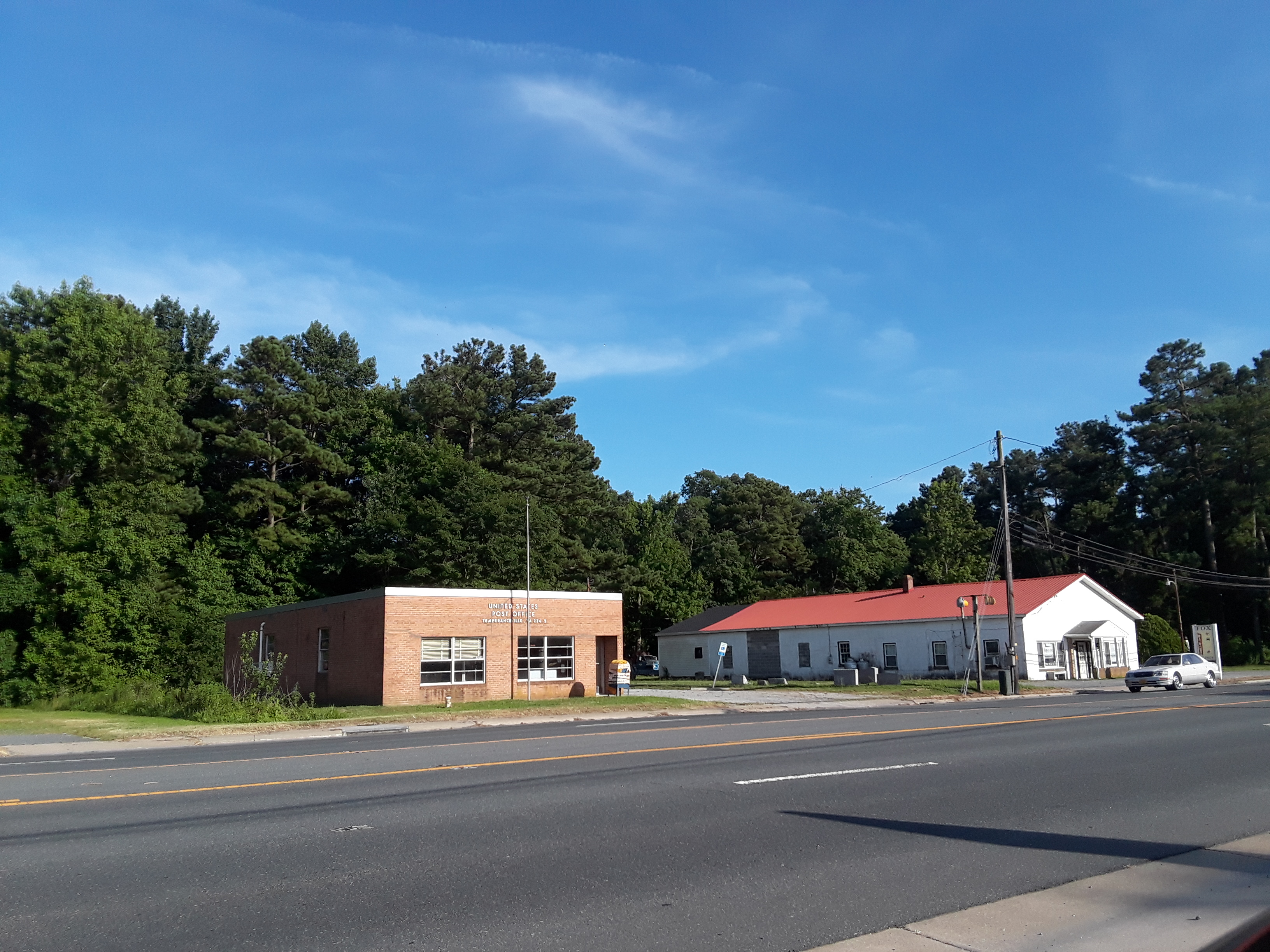 Taken on a visit to the Eastern Shore of Virginia, July 2018